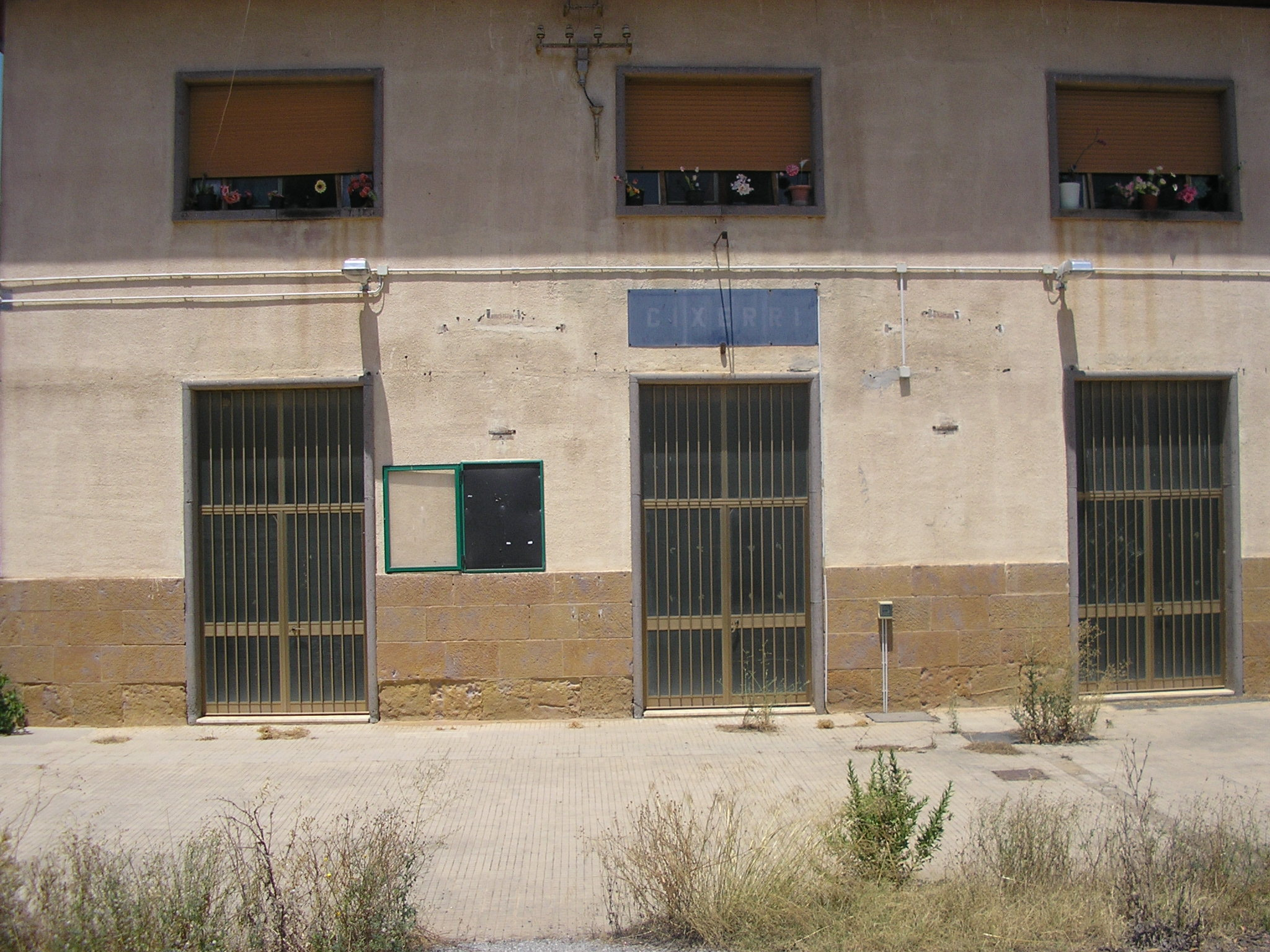 The halt of Cixerri, along the railway Villamassargia-Carbonia Stato, in Sardinia, Italy